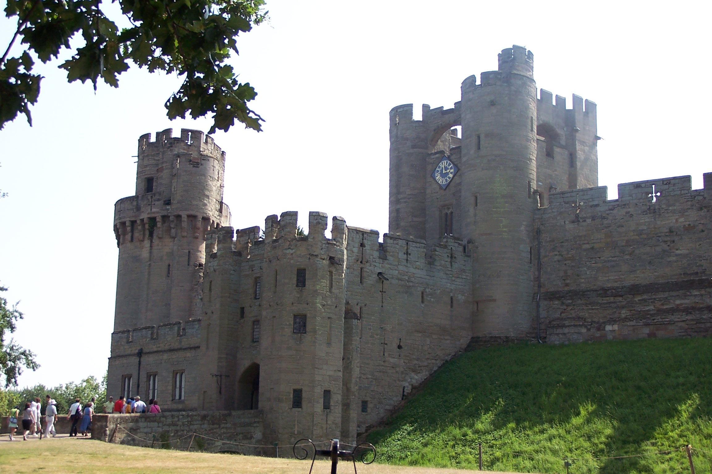 Warwick Castle, Main gate with clocktower, Caesar's Tower to the left